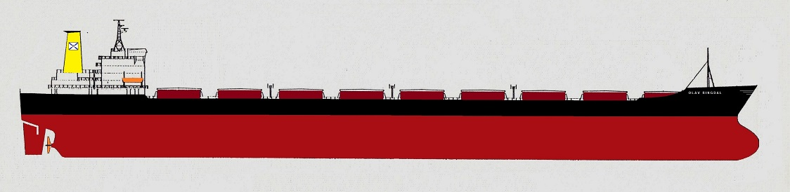 Bulk Carrier ship